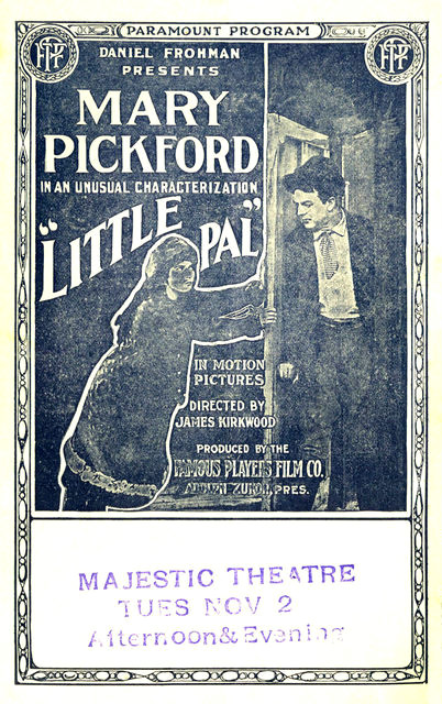 Poster for the American film Little Pal (1915) with Mary Pickford.